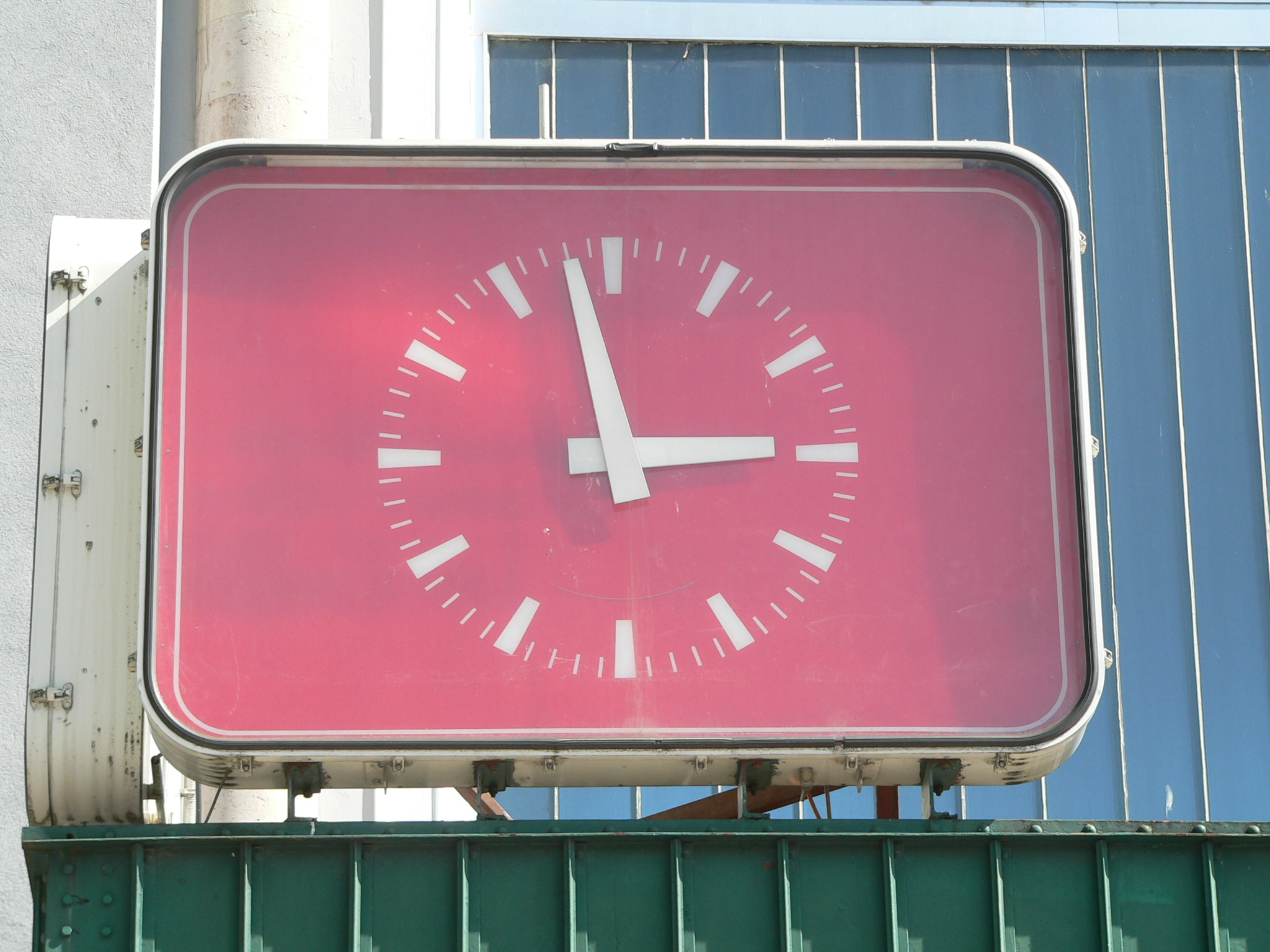 Clock on the front side of the main station Salzburg, Austria